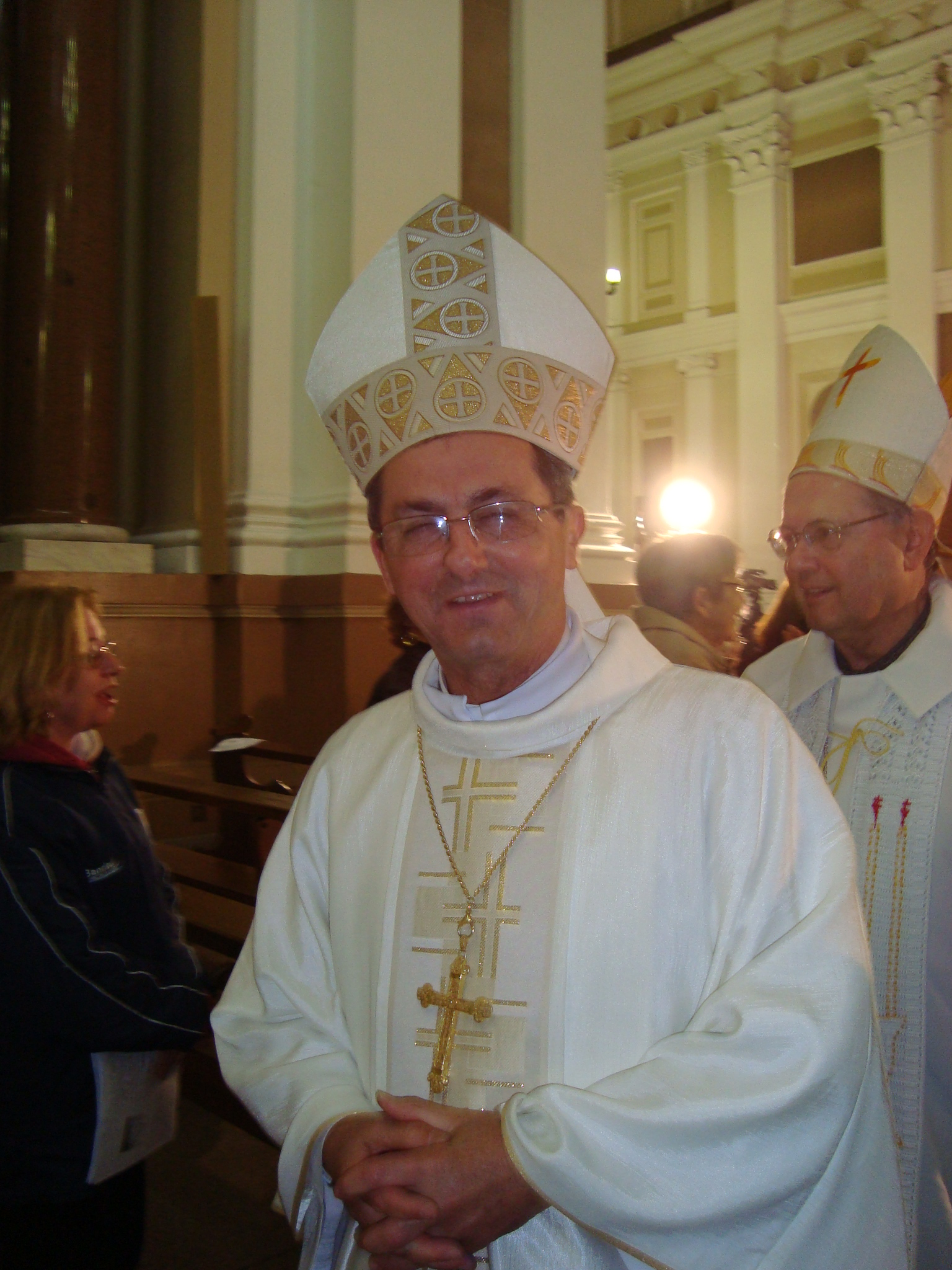 Liro Vendelino Meurer, catholic auxiliary bishop of Passo Fundo, Brazil